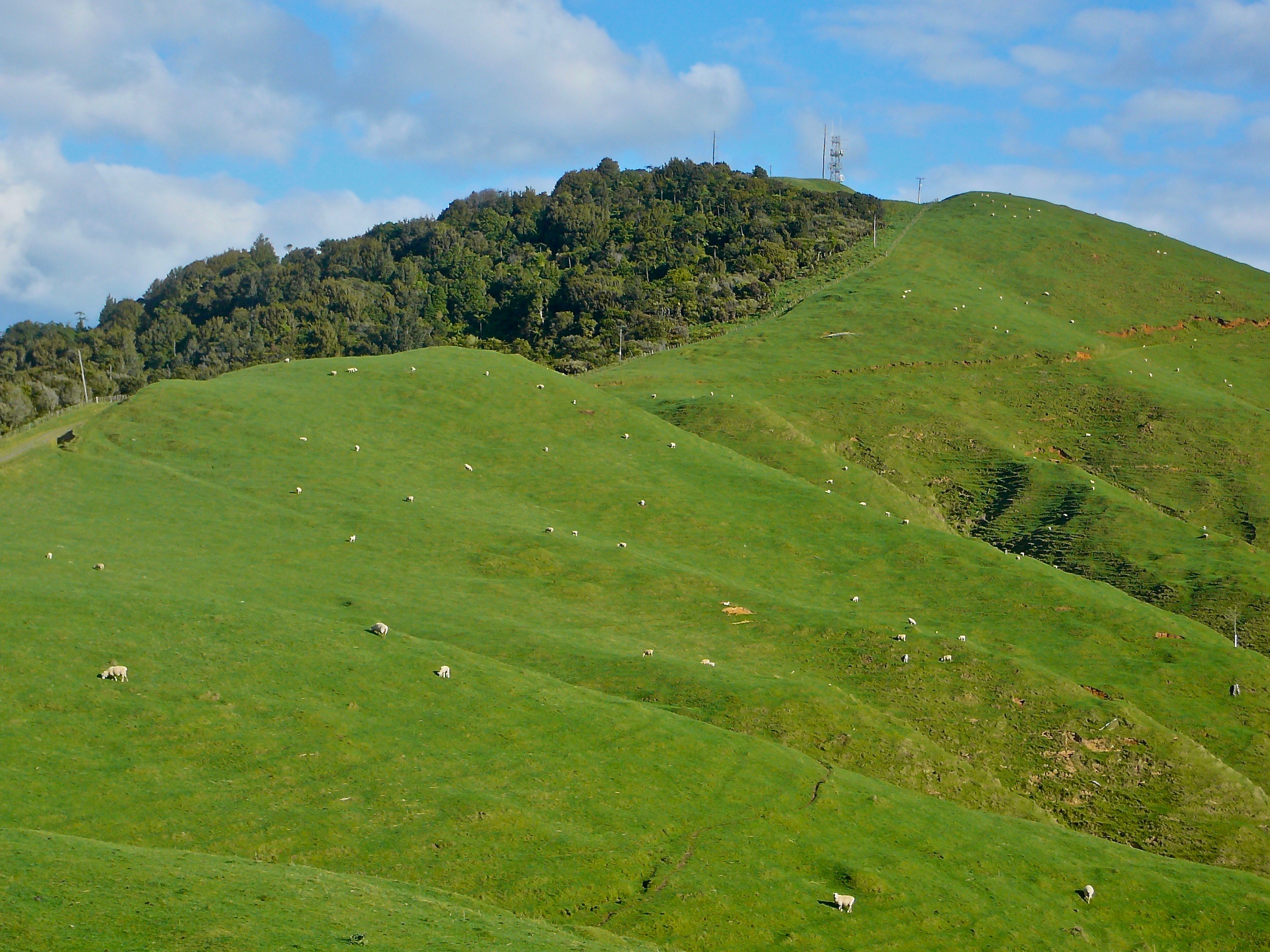 Hapuakohe Track to Maungakawa from north